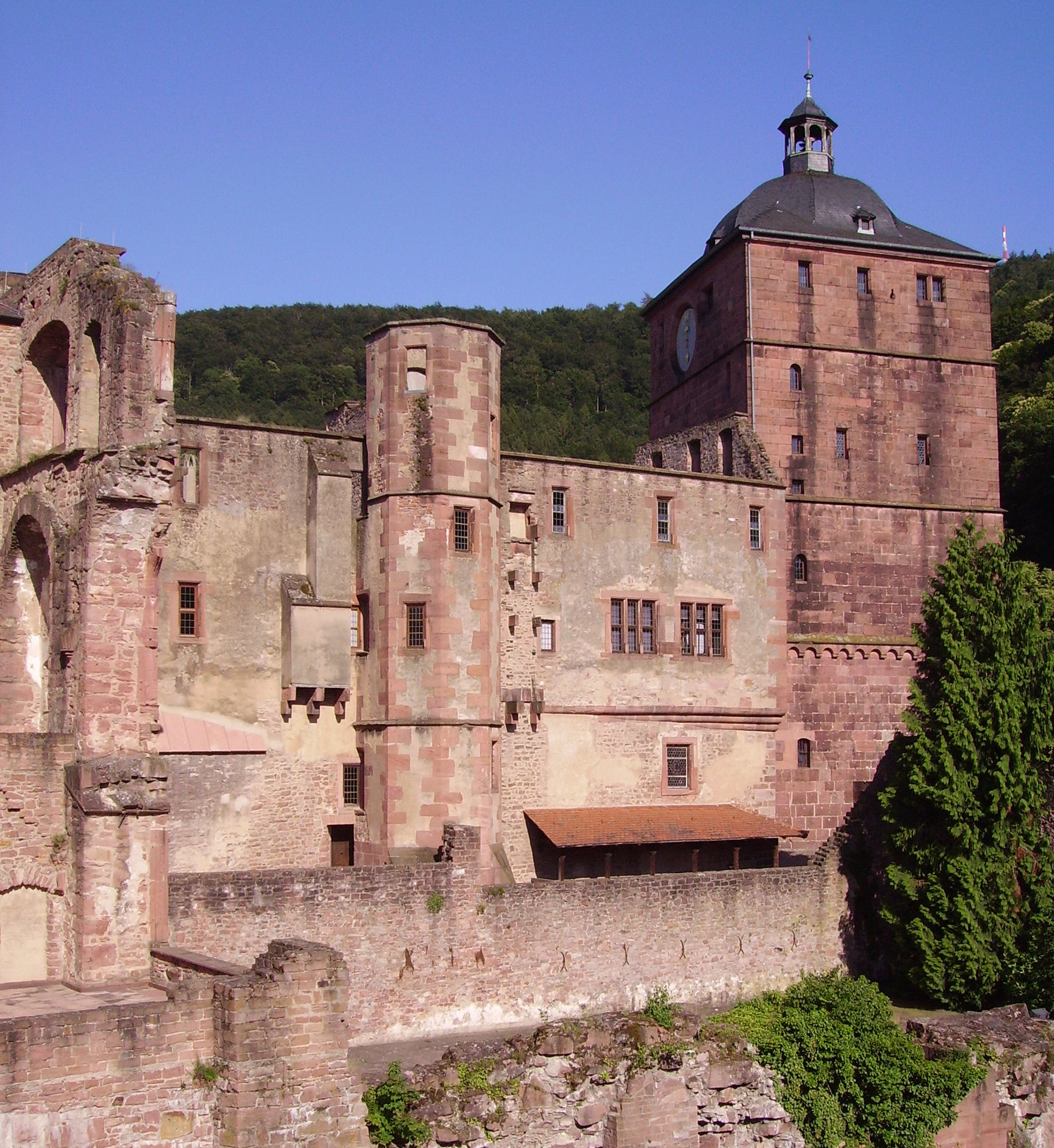 part of Heidelberg castle (Heidelberger Schloss)